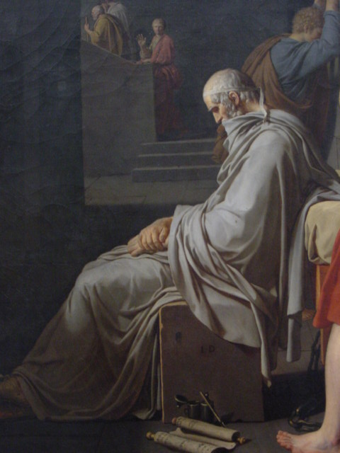 Jacques-Louis David (1748–1825) The Death of Socrates (detail) (1787) New York, Metropolitan Museum of Art